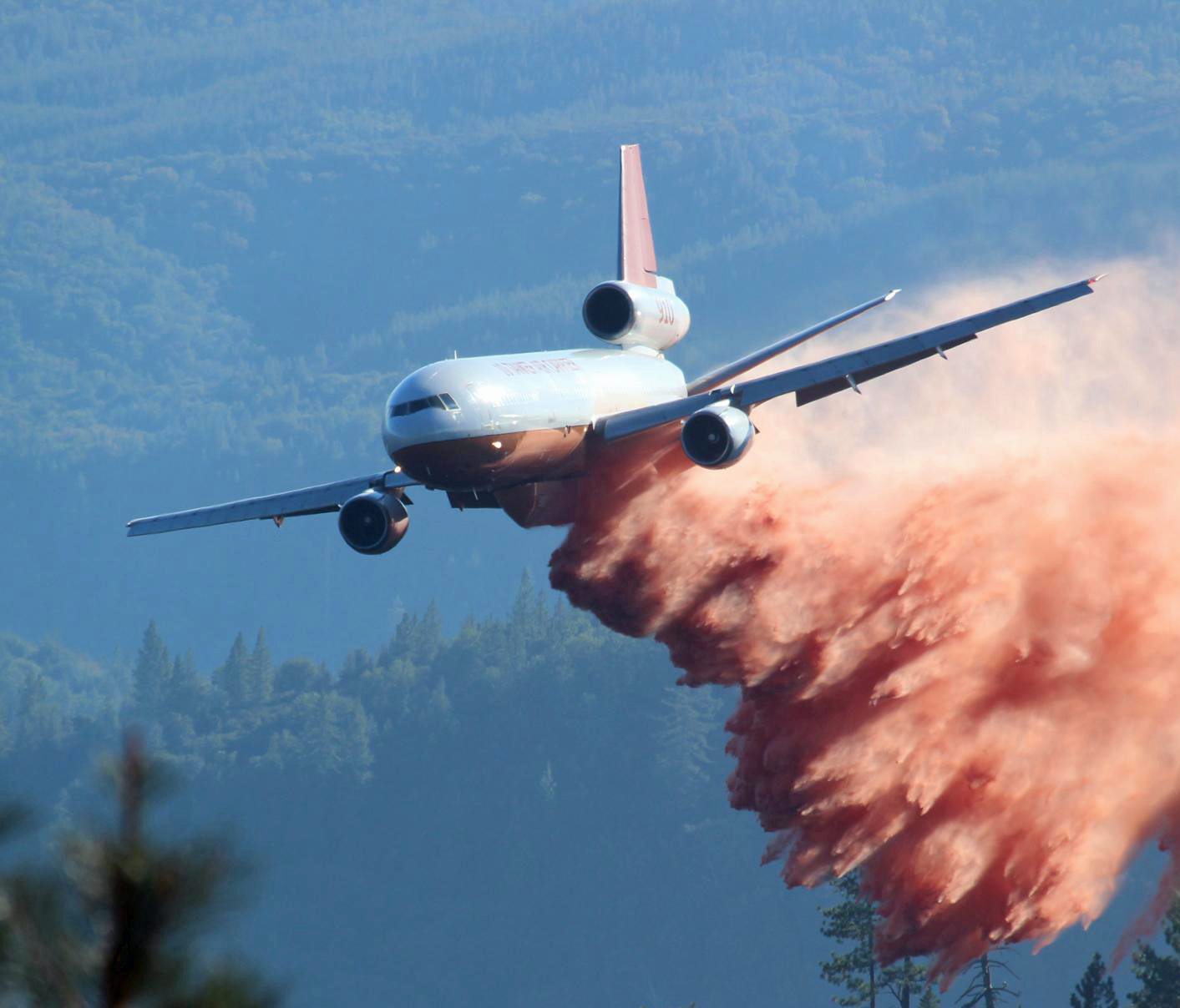 A DC-10 air tanker drops chemical fire retardant below Pilot Peak at the Rim Fire. The Rim Fire in the Stanislaus National Forest near in California began on Aug. 17, 2013 and is under investigation. The fire has consumed approximately 199,237 acres and is 32% contained. U.S. Forest Service photo by Mike McMillan.